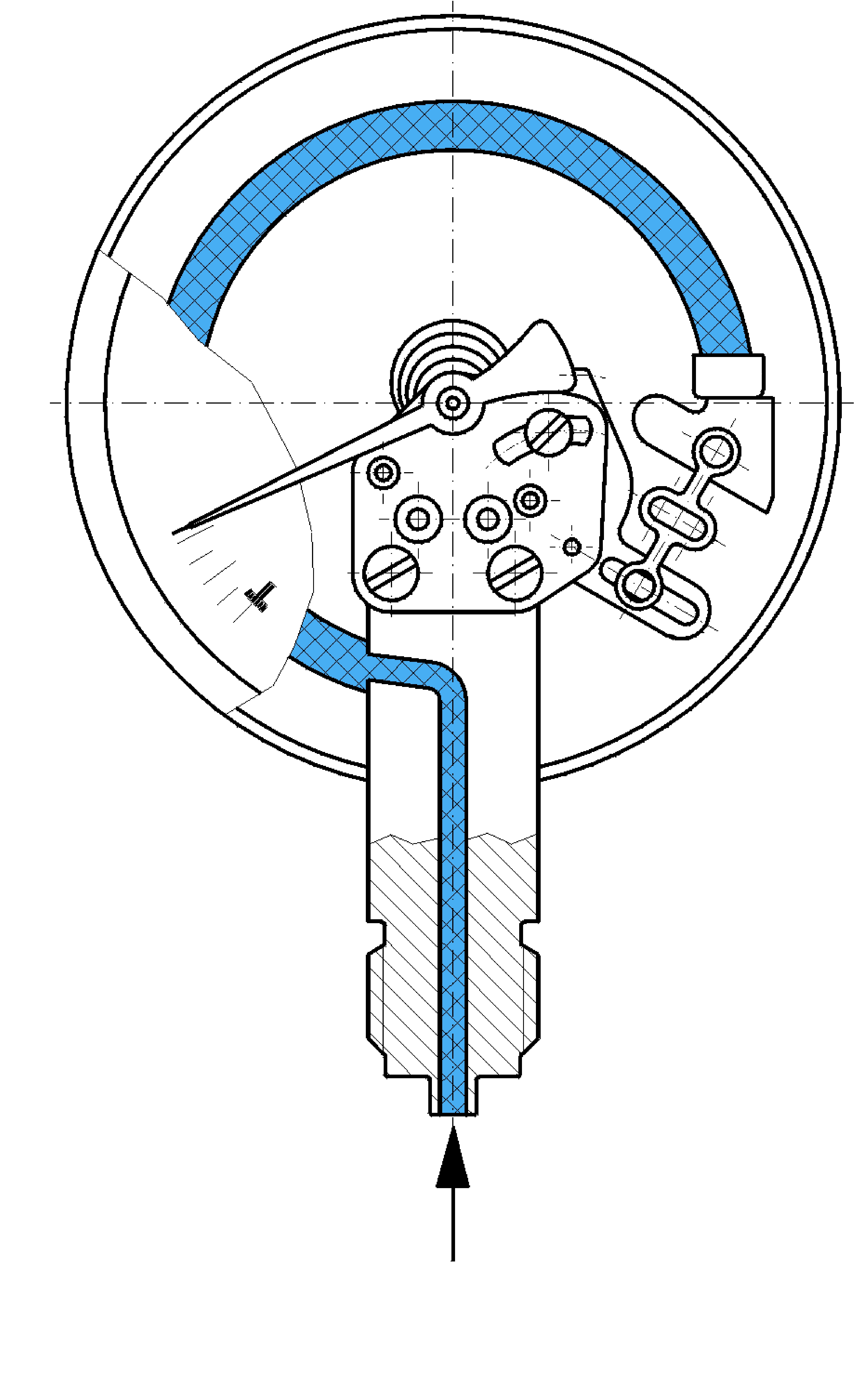 Drawing to show the principle of a Bourdon tube pressure gauge.